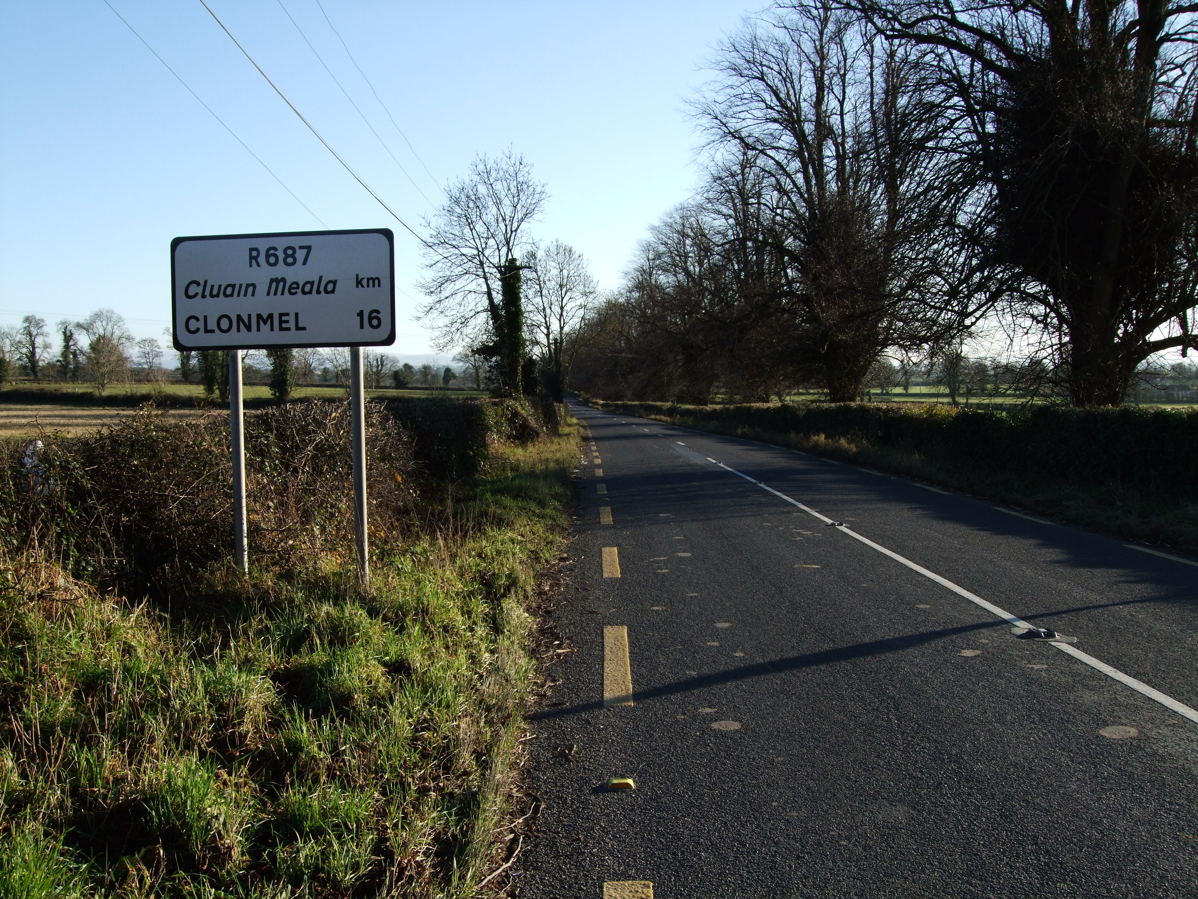 The R687 in December 2008